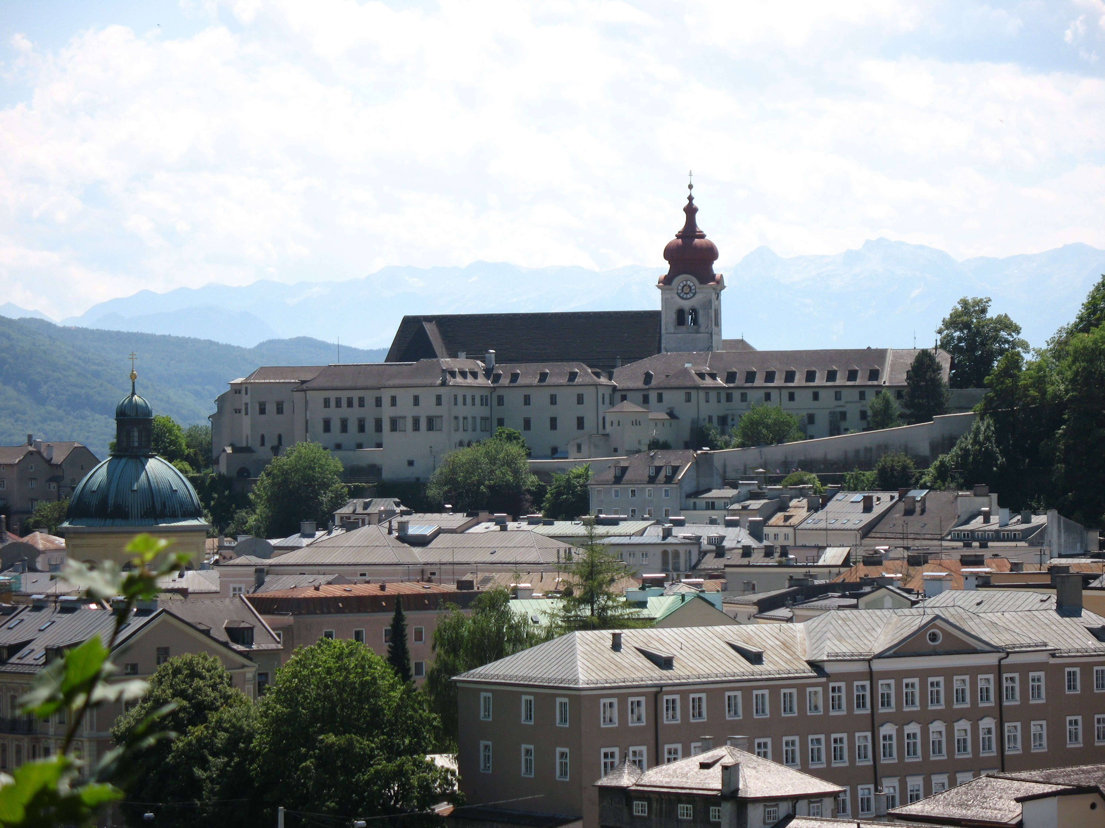 Nonnberg Abbey viewed from Kapuziner Hill, Salzburg, Austria Object location47° 47′ 46″ N, 13° 03′ 06″ E